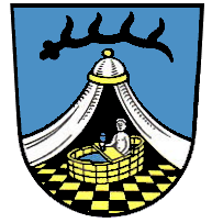 Coat of arms of Bad Liebenzell, Germany